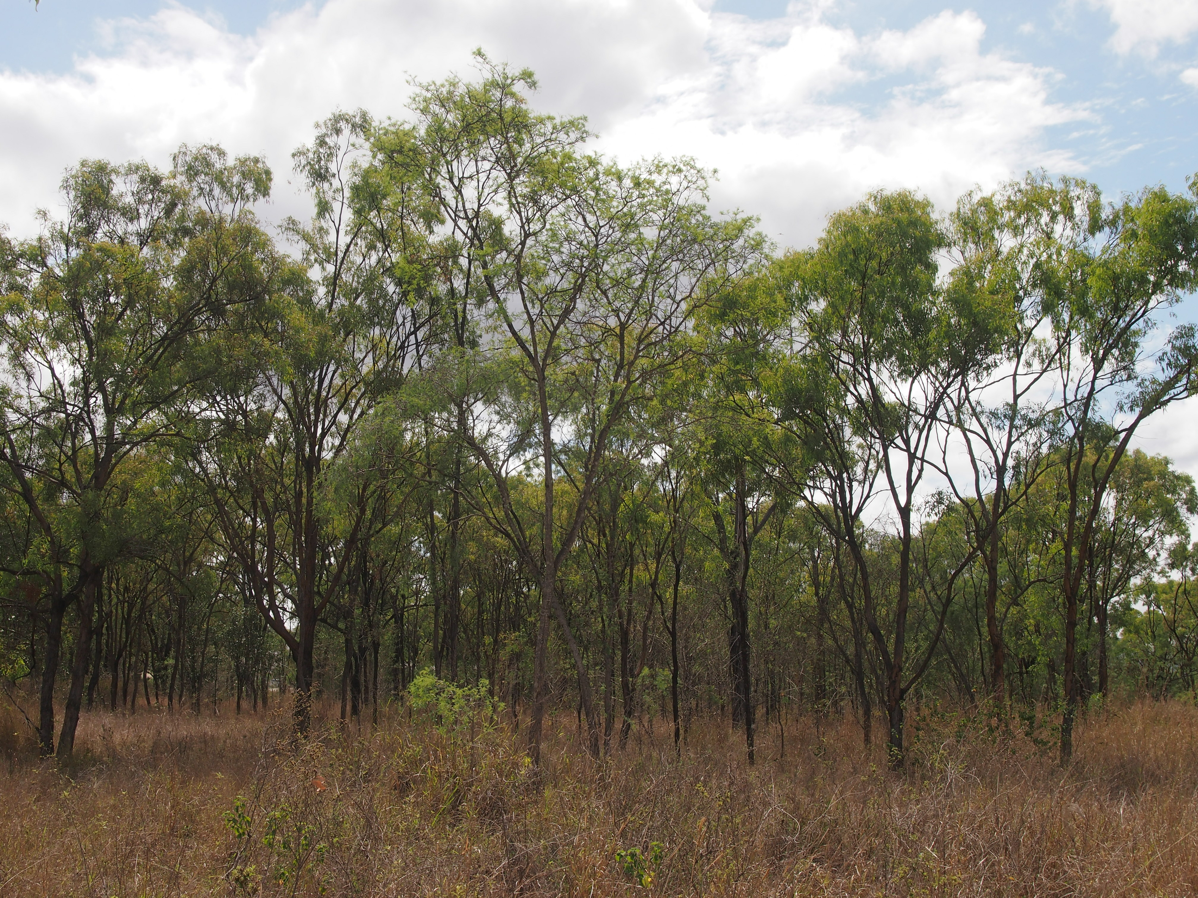 Acacia bidwillii in Eucalyptus crebra/Corymbia erythophloia savanna. Rockhampton, Central Queensland.